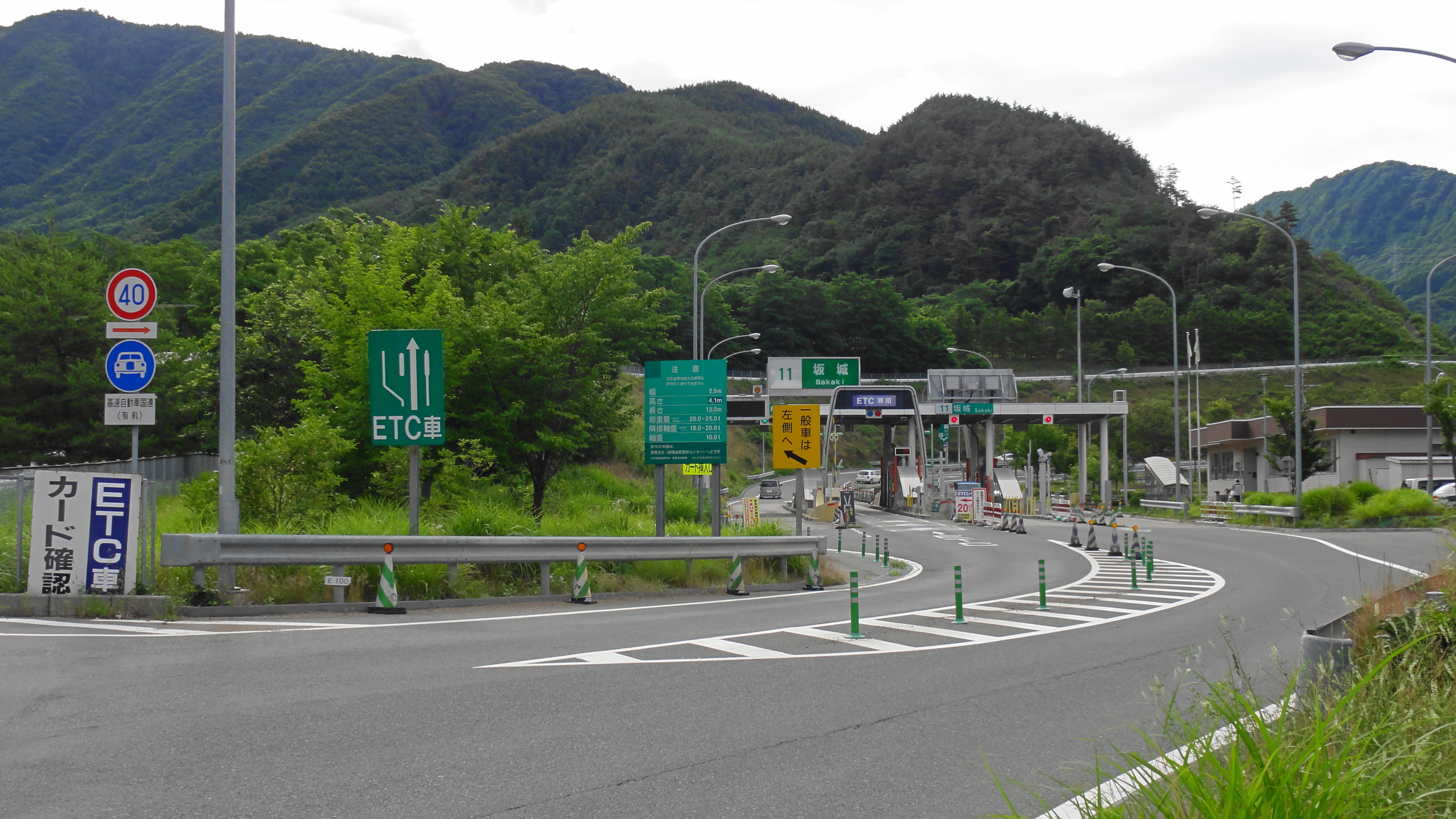 Sakaki Inter Change,Nagano prefecture, Japan